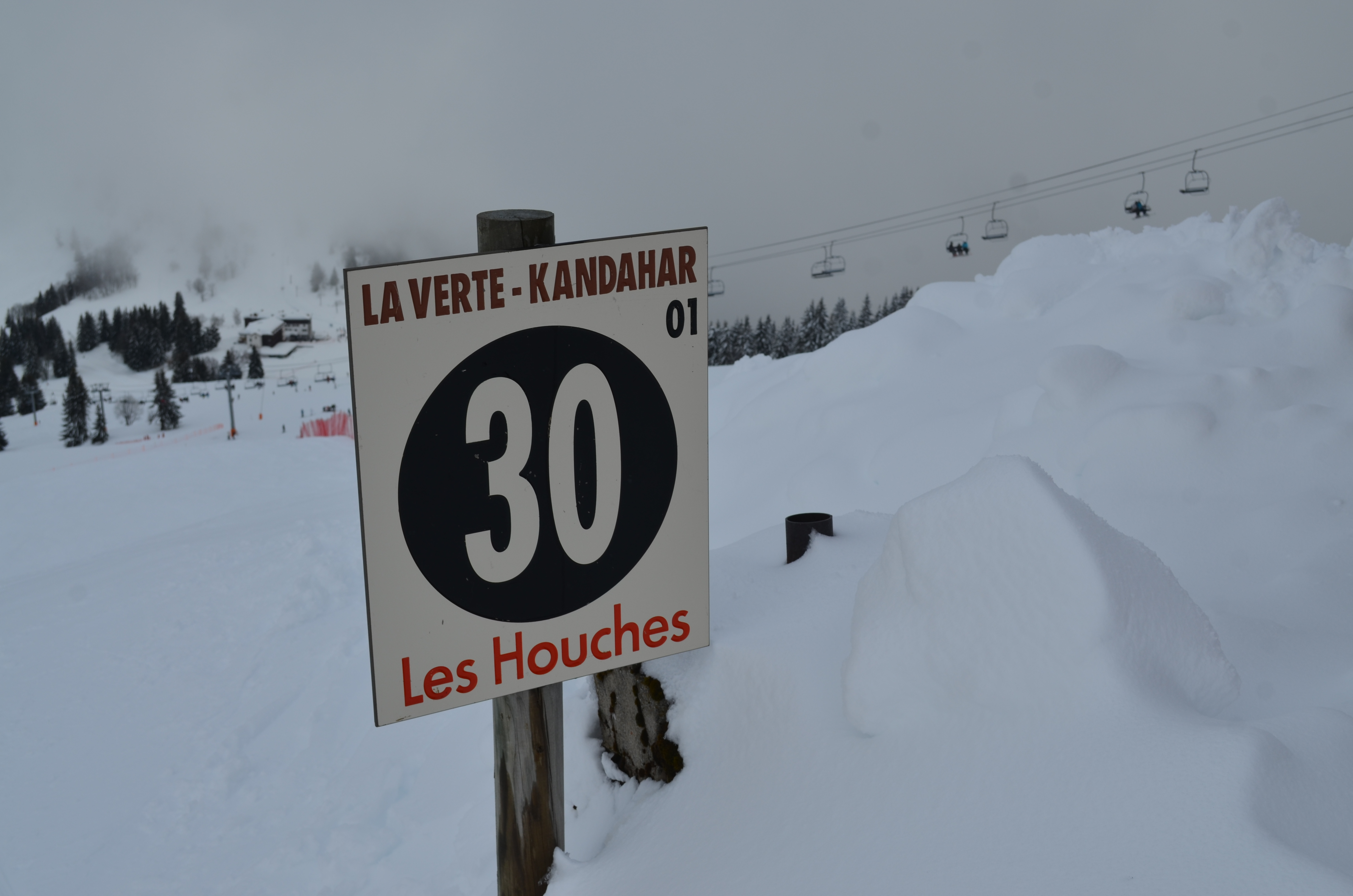 Chamonix is a resort town at the foot of Mont Blanc in France. A very popular winter ski resort with some excellent skiing including one of the longest ski runs in the world. Read more about Chamonix on Chamonix eGuide